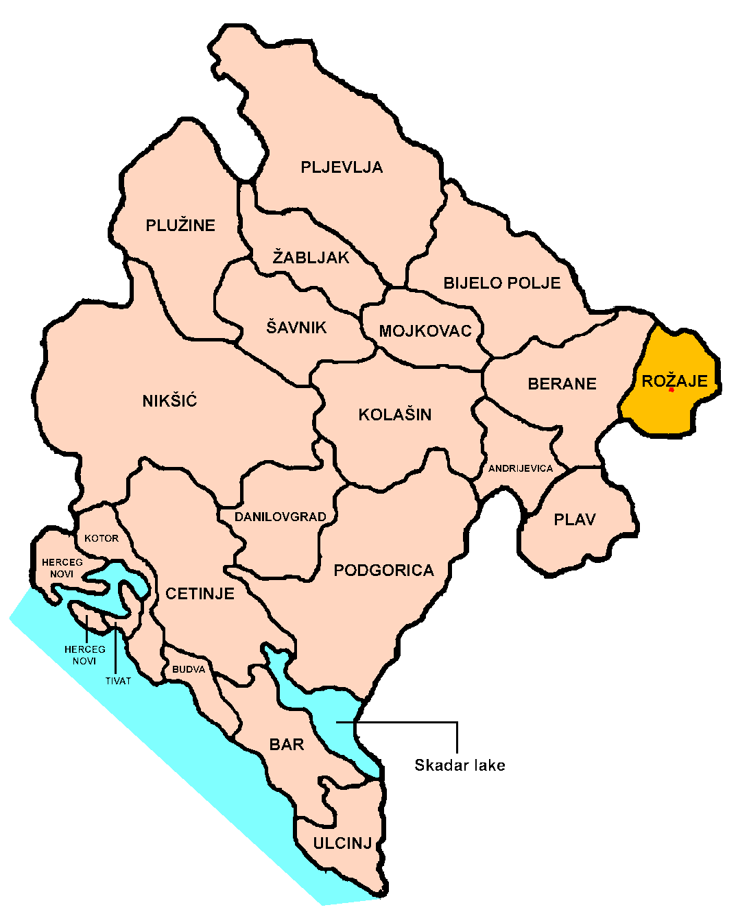 Location of Rožaje town and municipality within Montenegro